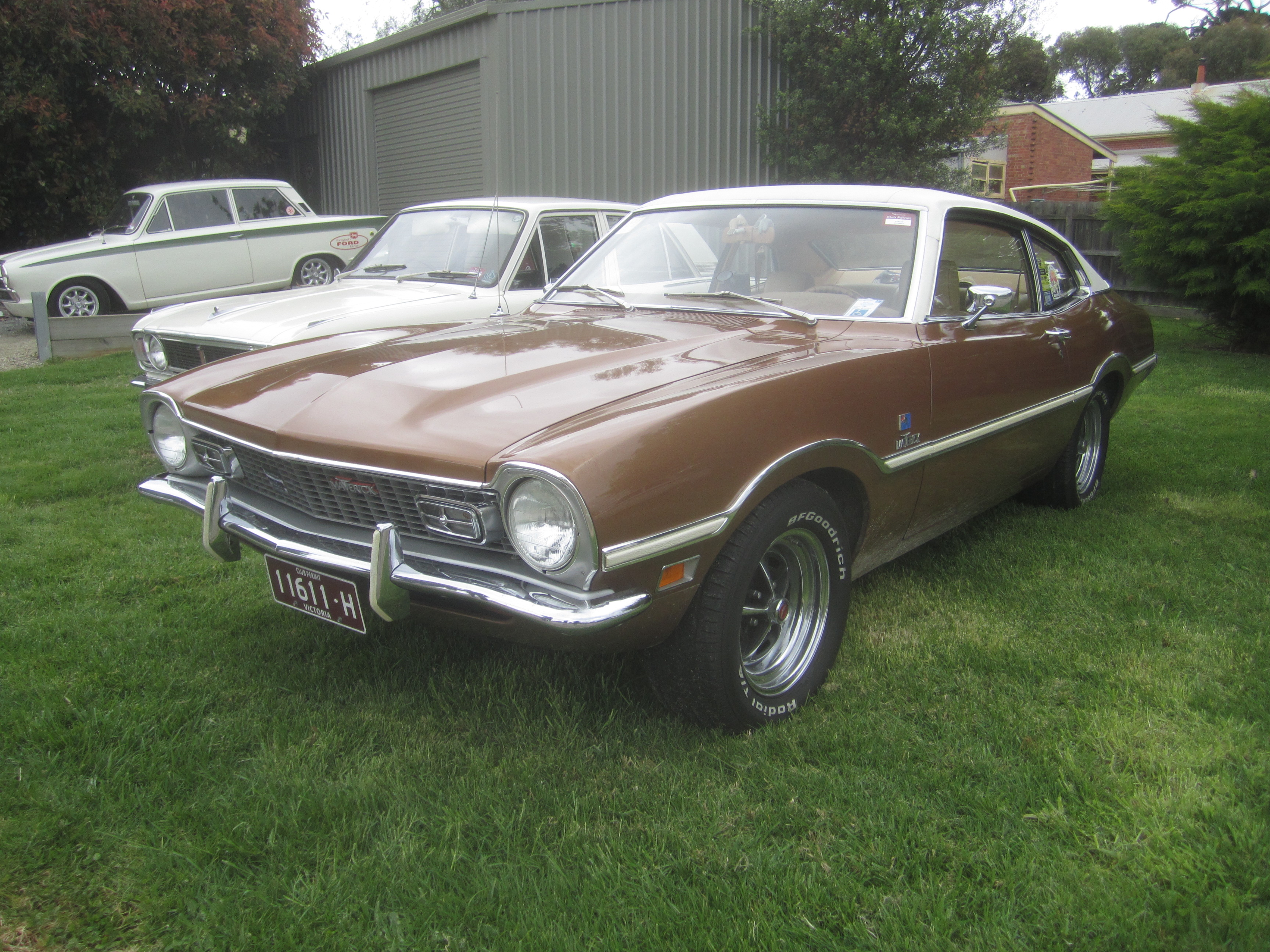 The Maverick replaced the Falcon as Americas compact car and was built from 1969-77. The Maverick's styling featured the long hood, fastback roof and short deck popularized by the Mustang, originally only available as a 2 door, but a 4 door was introduced in 1971. Mercury had a similar car called the Comet. The muscle car-themed Grabber trim package was introduced in mid-1970. The package included special graphics and trim, including a spoiler Engines; 170, 200, 250 cu in 6s or 302 V8